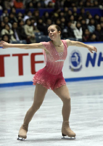 Ashley Wagner competes her short program at the 2008 NHK Trophy.